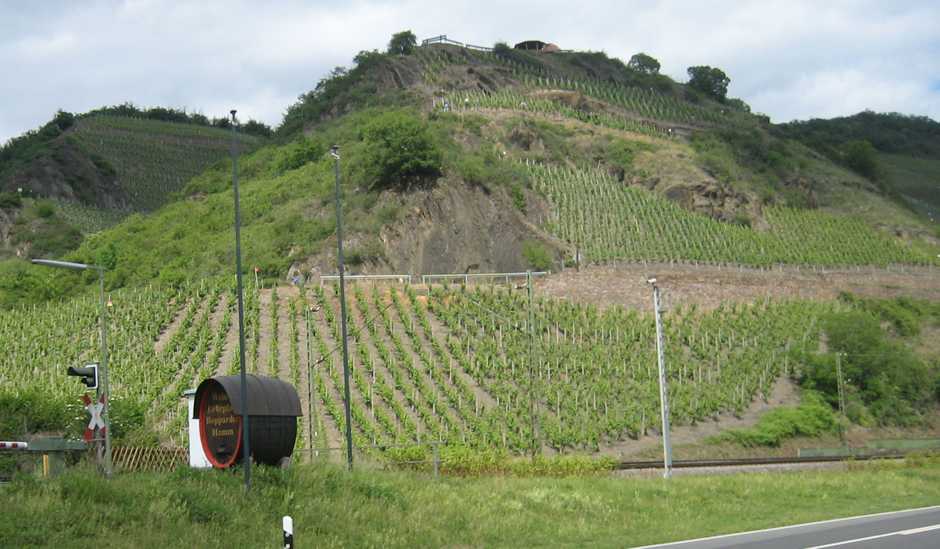 vineyard Bopparder Hamm near Boppard, seen from the Bundesstraße 9.